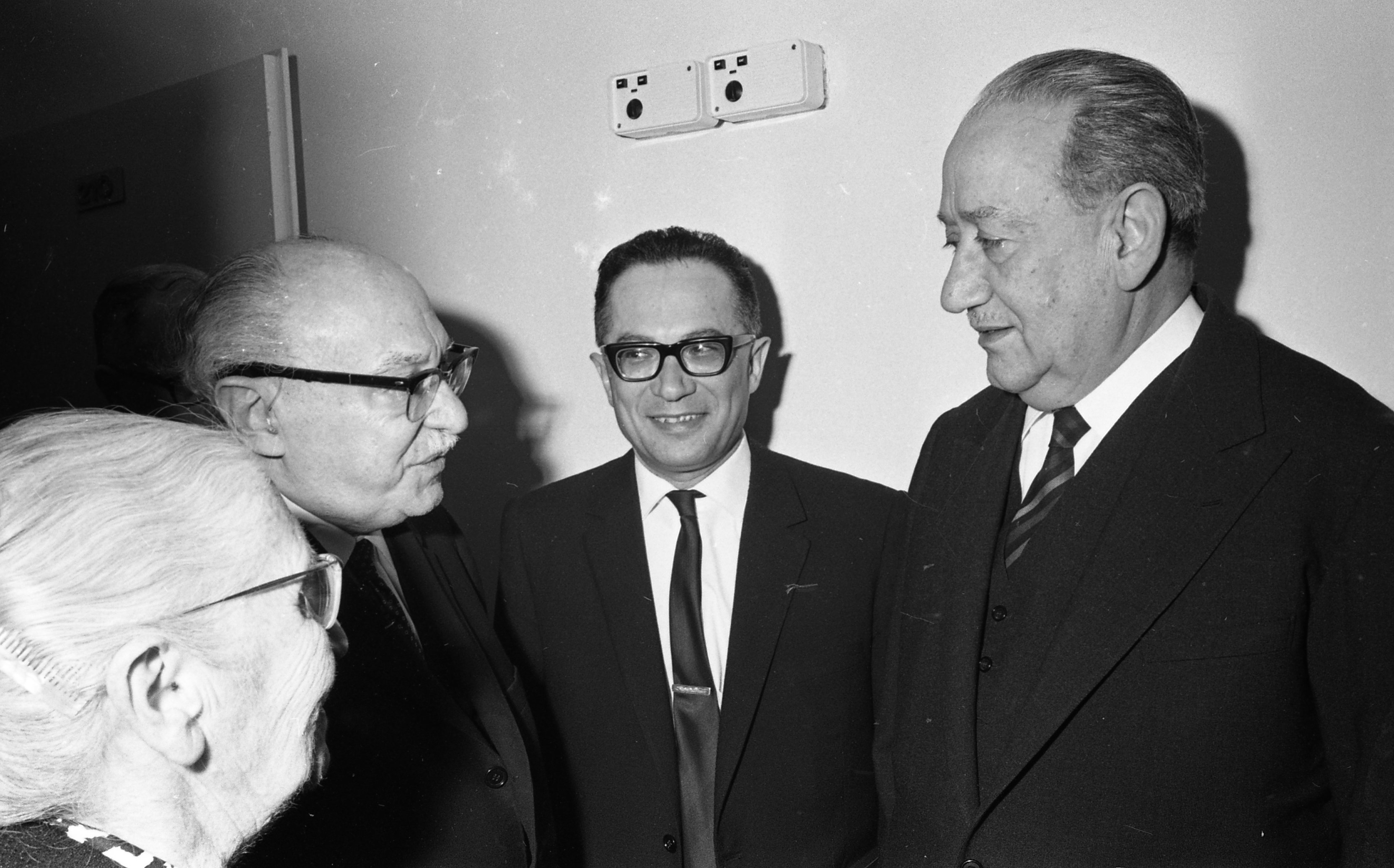 Jerusalem International Book Fair, 1969.